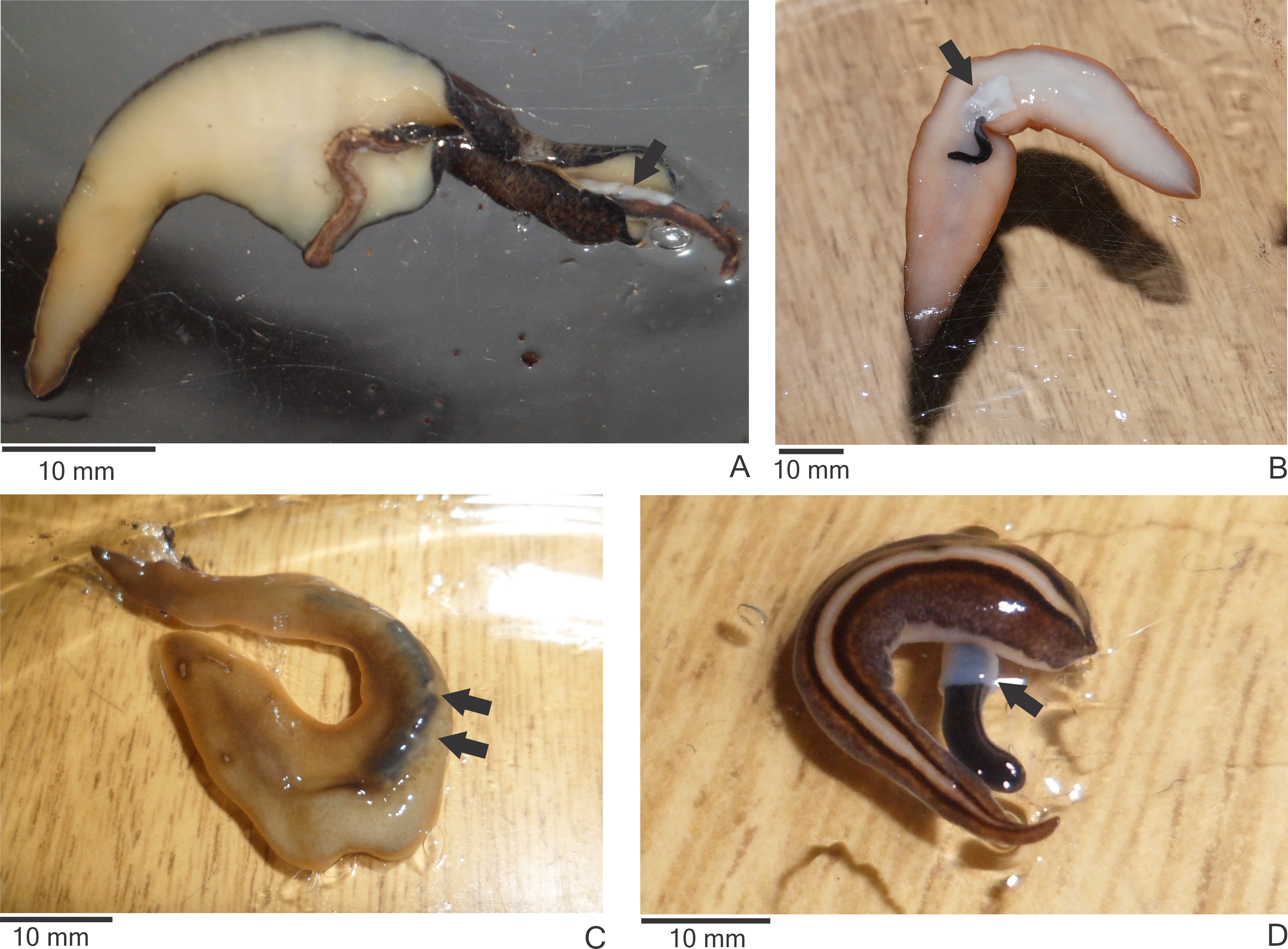 Native land planarians consuming Endeavouria septemlineata in experiments in the laboratory. (A) Obama josefi in ventral view; (B) Obama marmorata in ventral view; (C) Obama anthropophila in dorsal view; and (D) Paraba multicolor in dorsal view. Arrows indicate the pharynx of the predators; double arrows show parts of the body of a preyed specimen of E. septemlineata in the intestine.